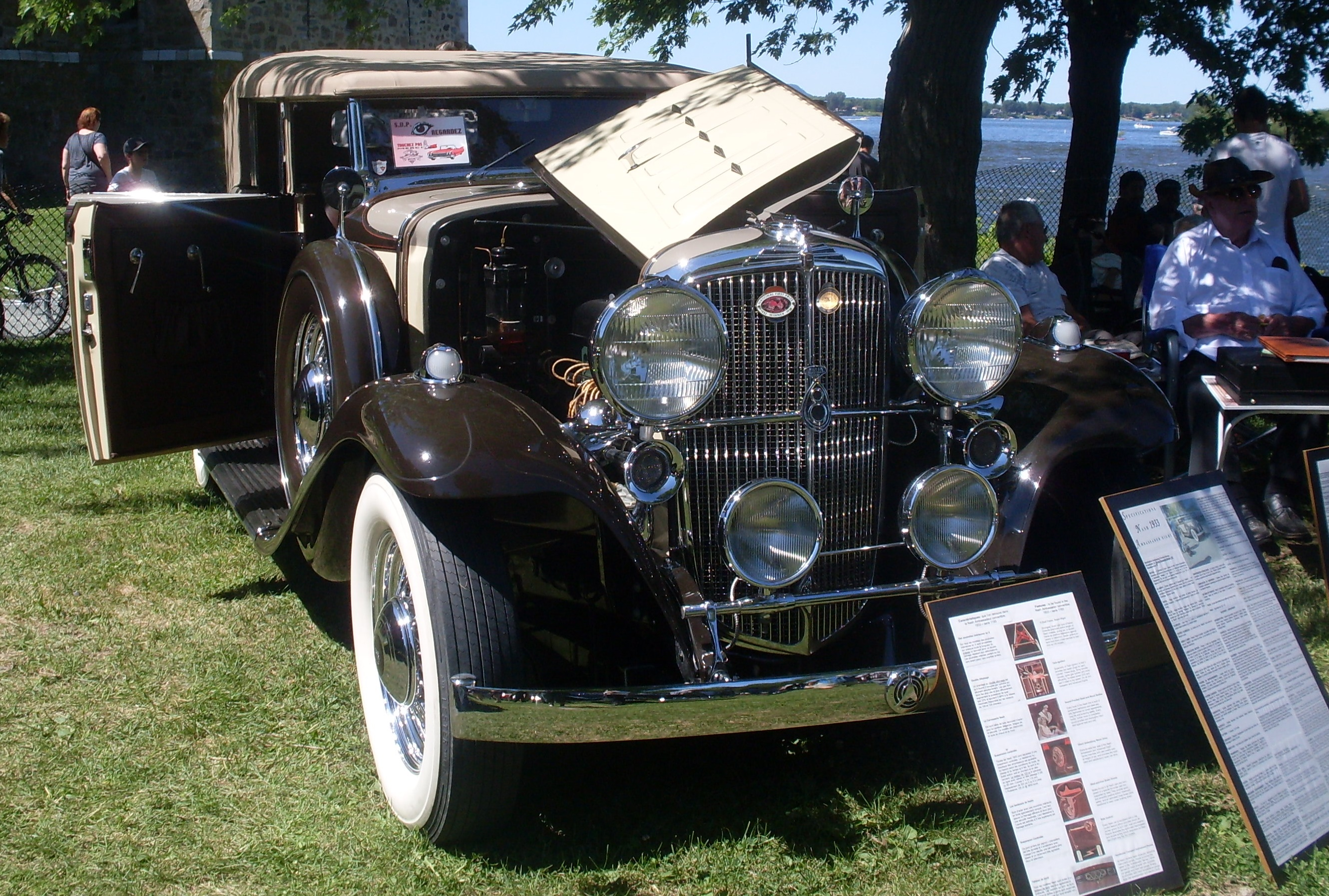 1933 Nash photographed at the 2013 VACM Chambly auto show in Chambly, Quebec, Canada.